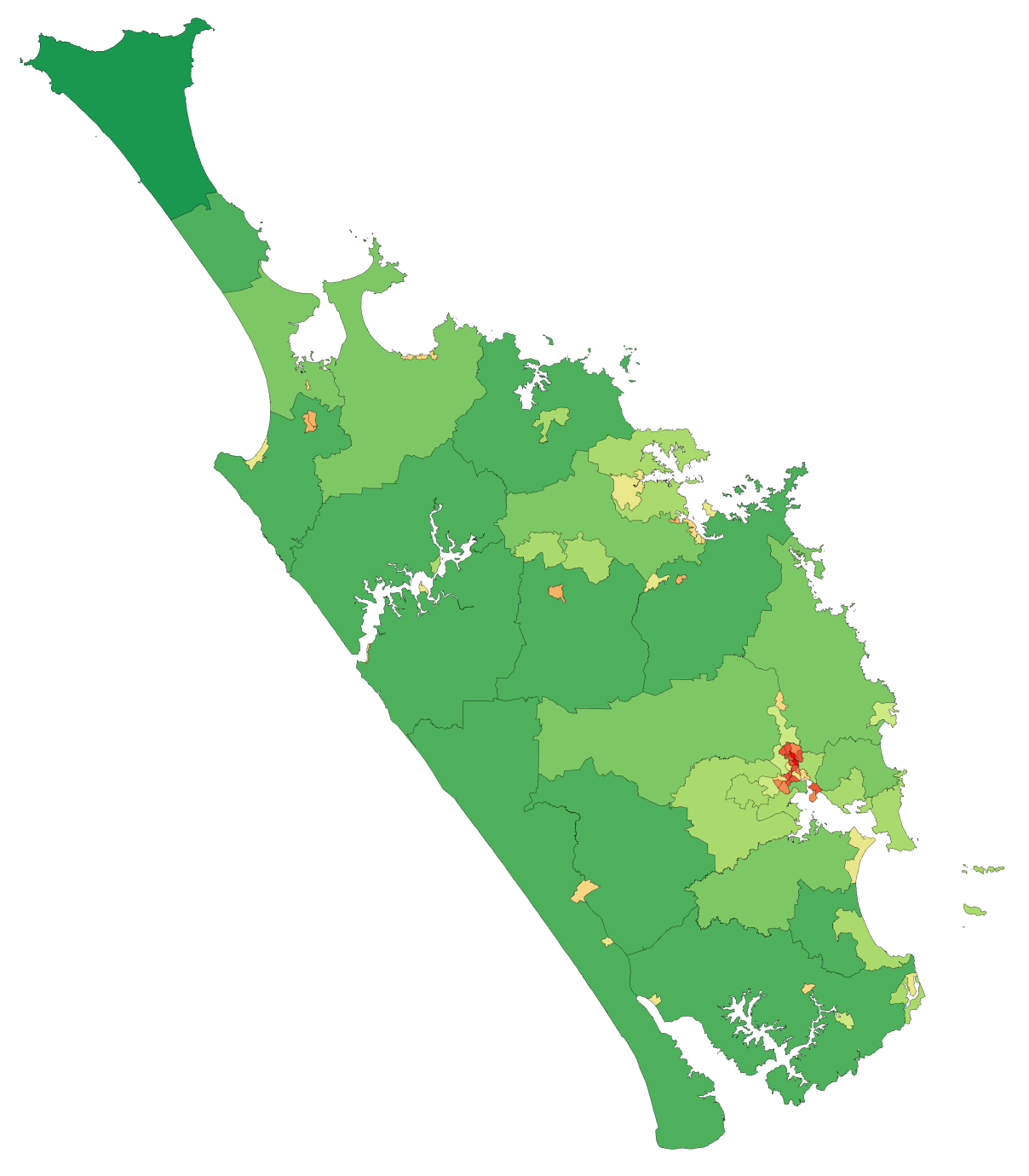 Map showing population density of a region of New Zealand (by Statistics NZ Area Unit) as of the 2006 census